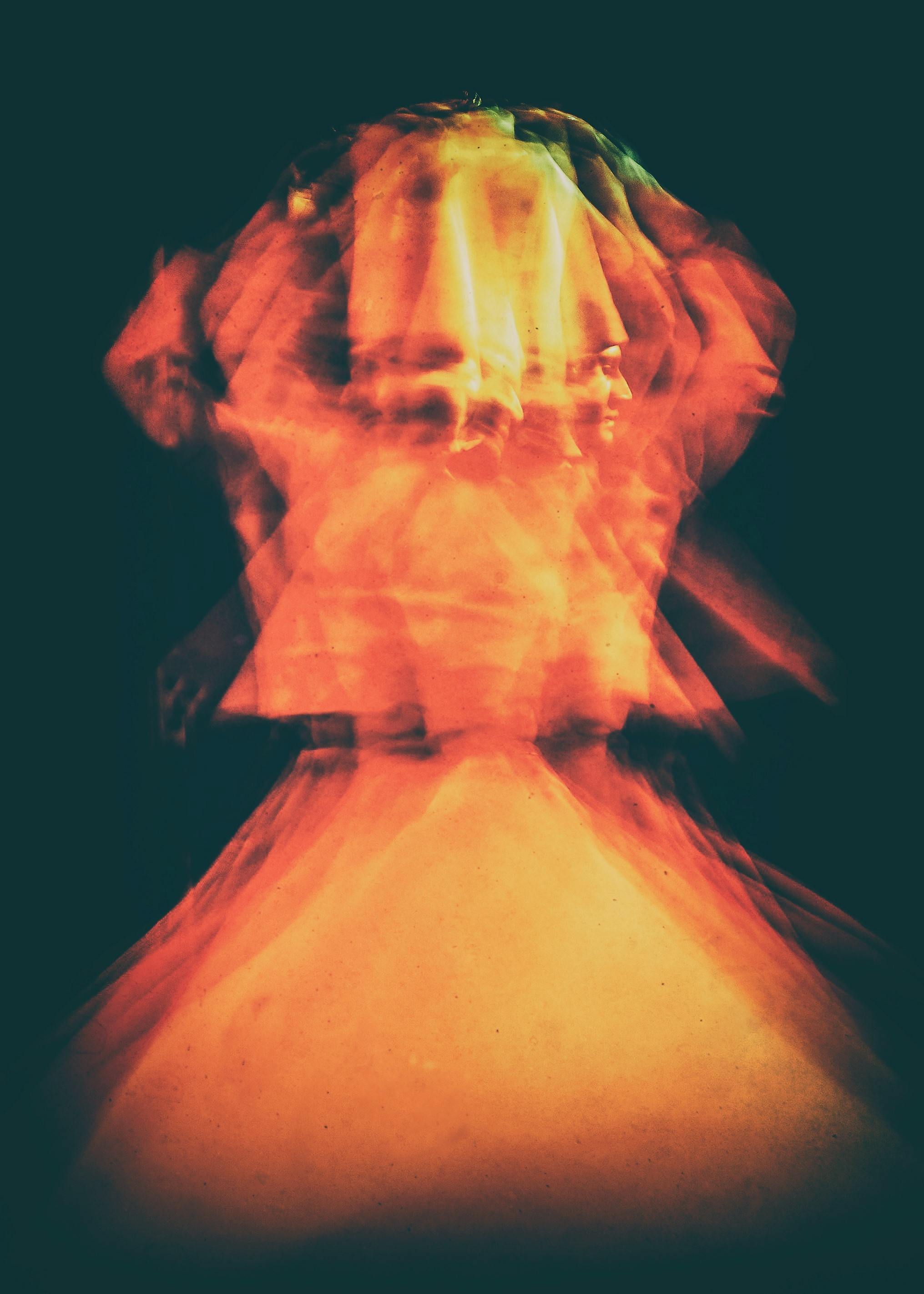 Sufi whirling is a form of physically active meditation which originated among Sufis and which is still practiced by the Sufi Dervishes This is an image with the theme "Play" from: Egypt